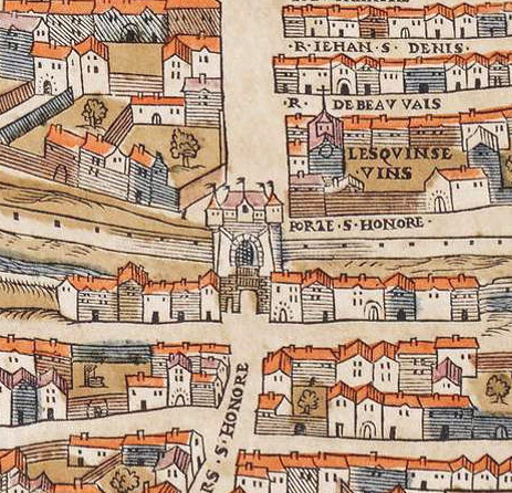 St-Honoré gate on the plan of Truschet and Hoyau (1550).